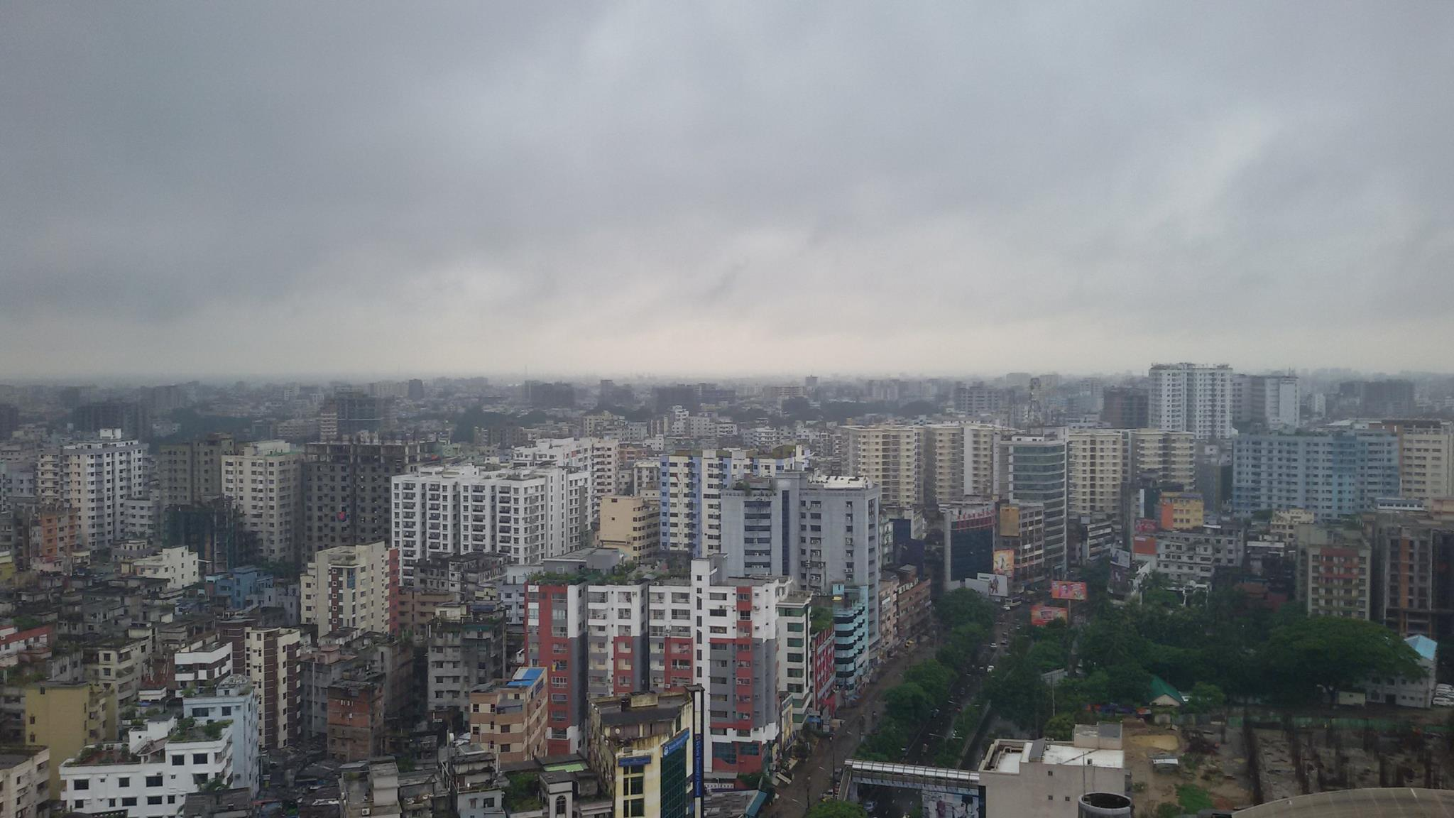 A view from Capricorn's Skywatch Restaurant situated at Level- 19, Bashundhara City Tower, Panthapath Dhaka, Bangladesh